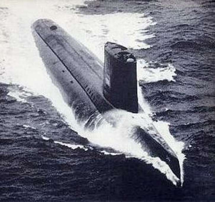 Cropped photo from 1960 Anaconda Copper magazine advertisement which is captioned as: Official U.S. Navy Photograph